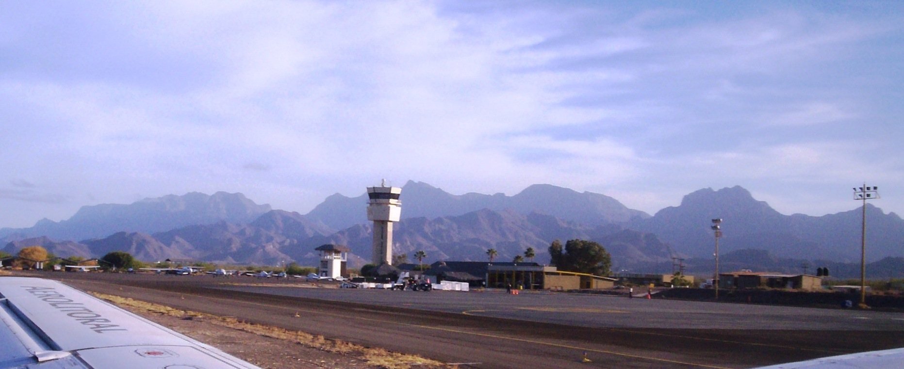 Loreto International Airport — Loreto, Baja California Sur. Between the Sierra de la Giganta range and the Gulf of California.